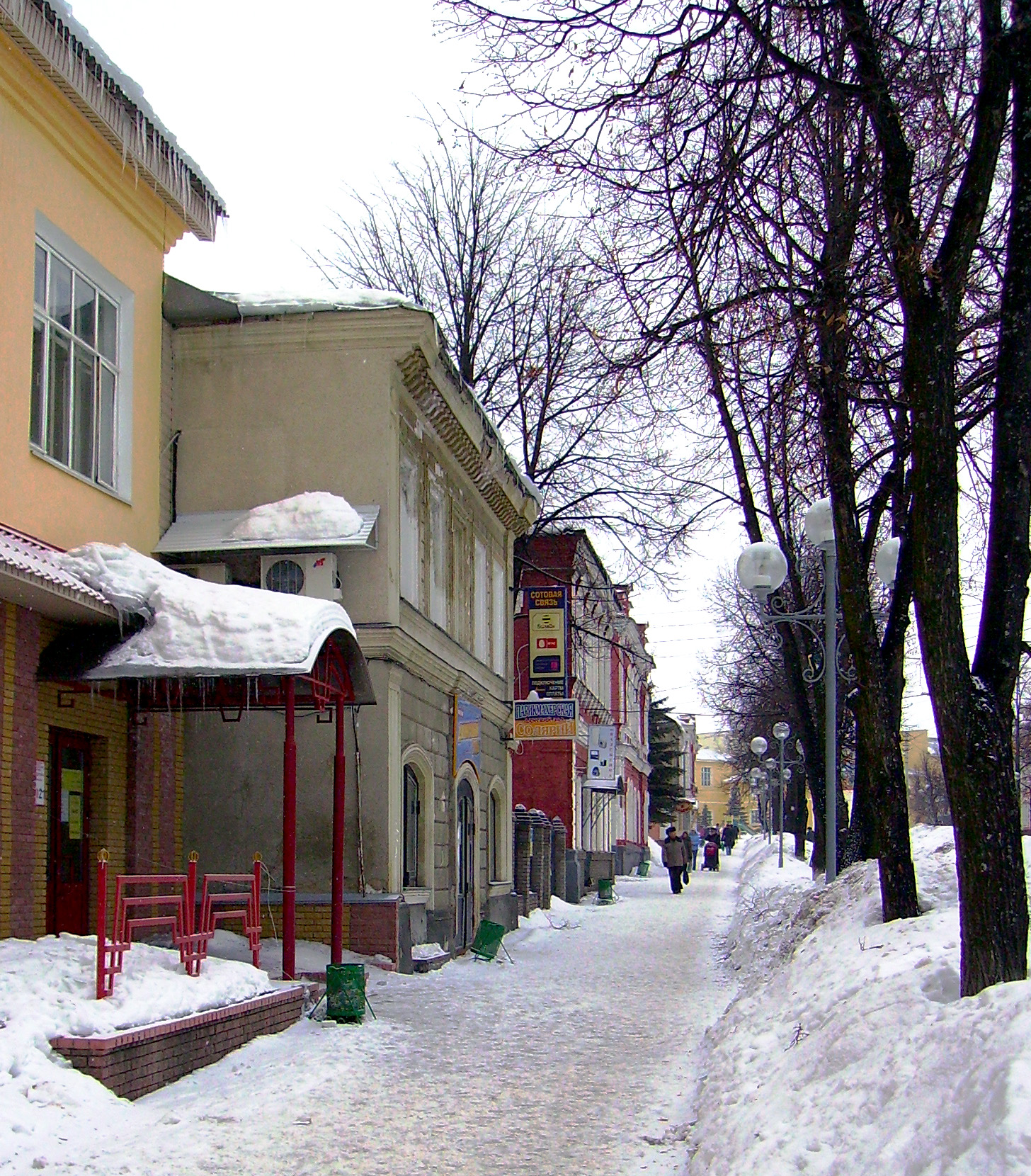 Lenin Street